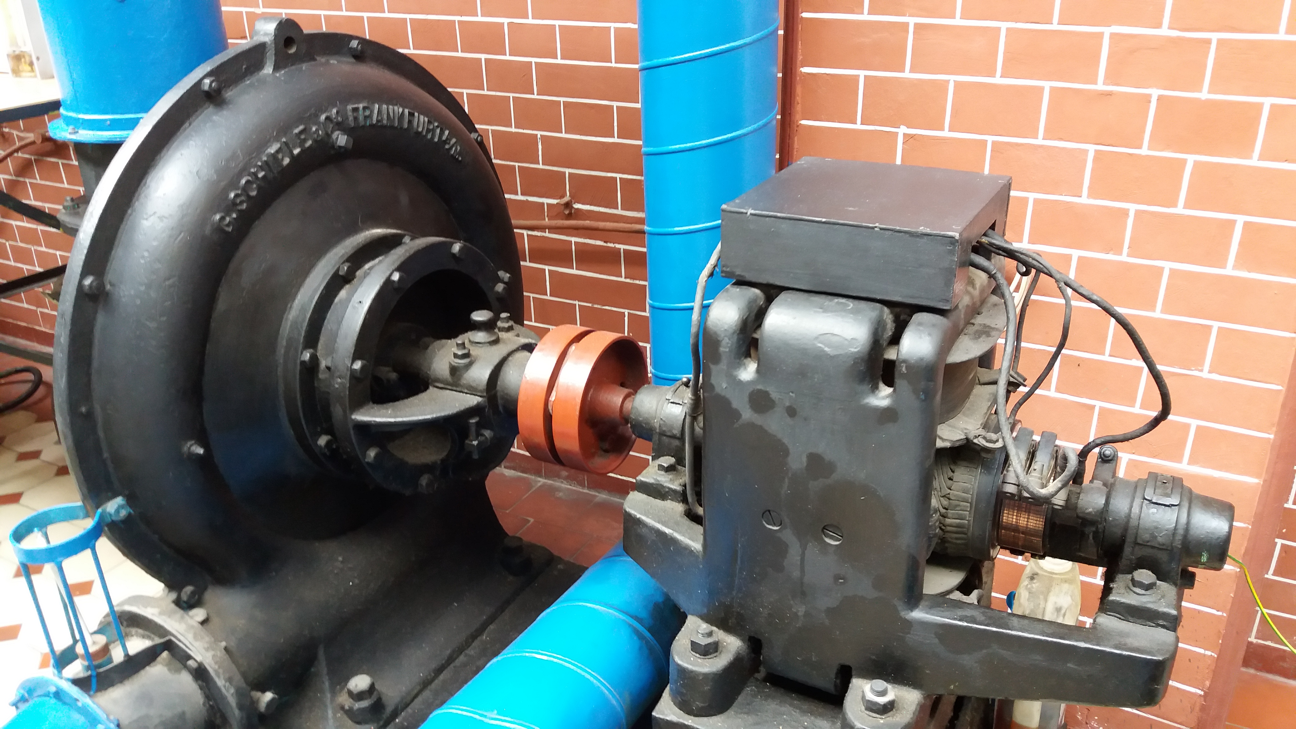 A single stage centrifugal compressor manufactured in the early 1900s by G. Schiele & Co., Frankfurt am Main. Properly maintained, used until today in the student laboratory of the Gdańsk University of Technology.